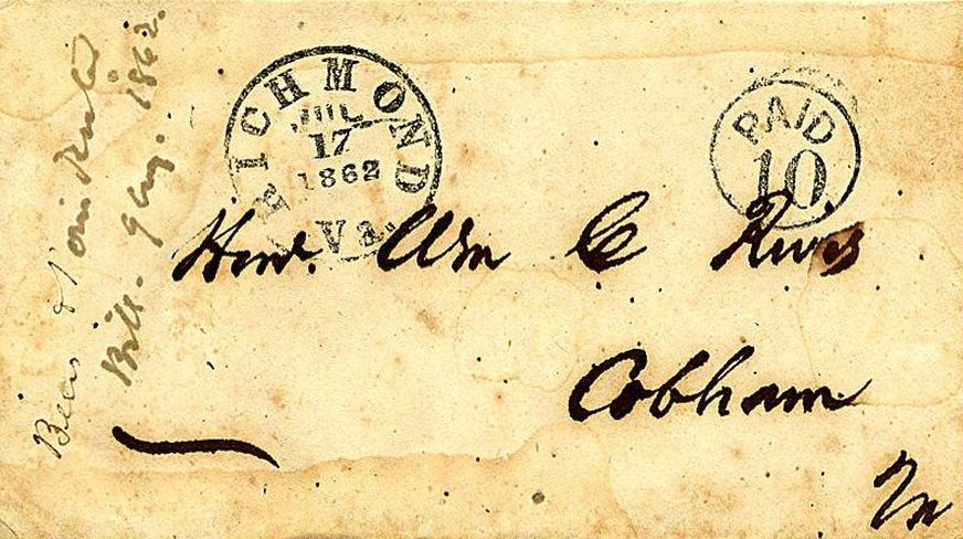 Confederate hand stamped provisional cover, 1862Cover mailed after the new uniform postage rate of ten cents had gone into effect, July 1, 1862. Addressee reads: William Cabell Rives, who was at that time a member of the Confederate Congress. Rives had also served in the United States Senate and House of Representatives and as Ambassador to France.